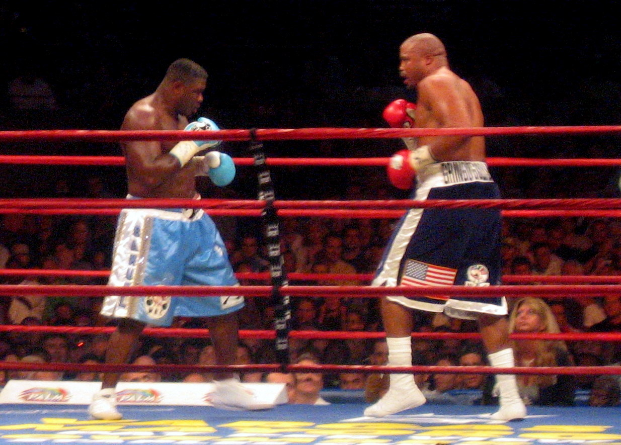 Samuel Peter (on the left) vs. Jameel McCline at the Madison Square Garden on October 6, 2007.